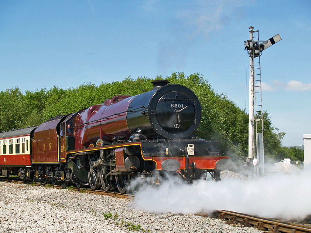 Princess Elizabeth Locomotive Society former London Midland and Scottish Railway Stanier 8P 4-6-2 ?Princess Royal? class locomotive number 6201 PRINCESS ELIZABETH (TOPS number 98801) of Crewe North MPD passes Castleton East Junction signal box 52 signal (Up Through Siding To Up Main) with the 13:10 (Additional) Castleton East Junction to Doncaster West Yard (5Z39) formed of London & North Western Railway Company Limited former British Railways Mark 1 diagram AB21 corridor brake standard coach number 35465. Friday 2nd June 2006